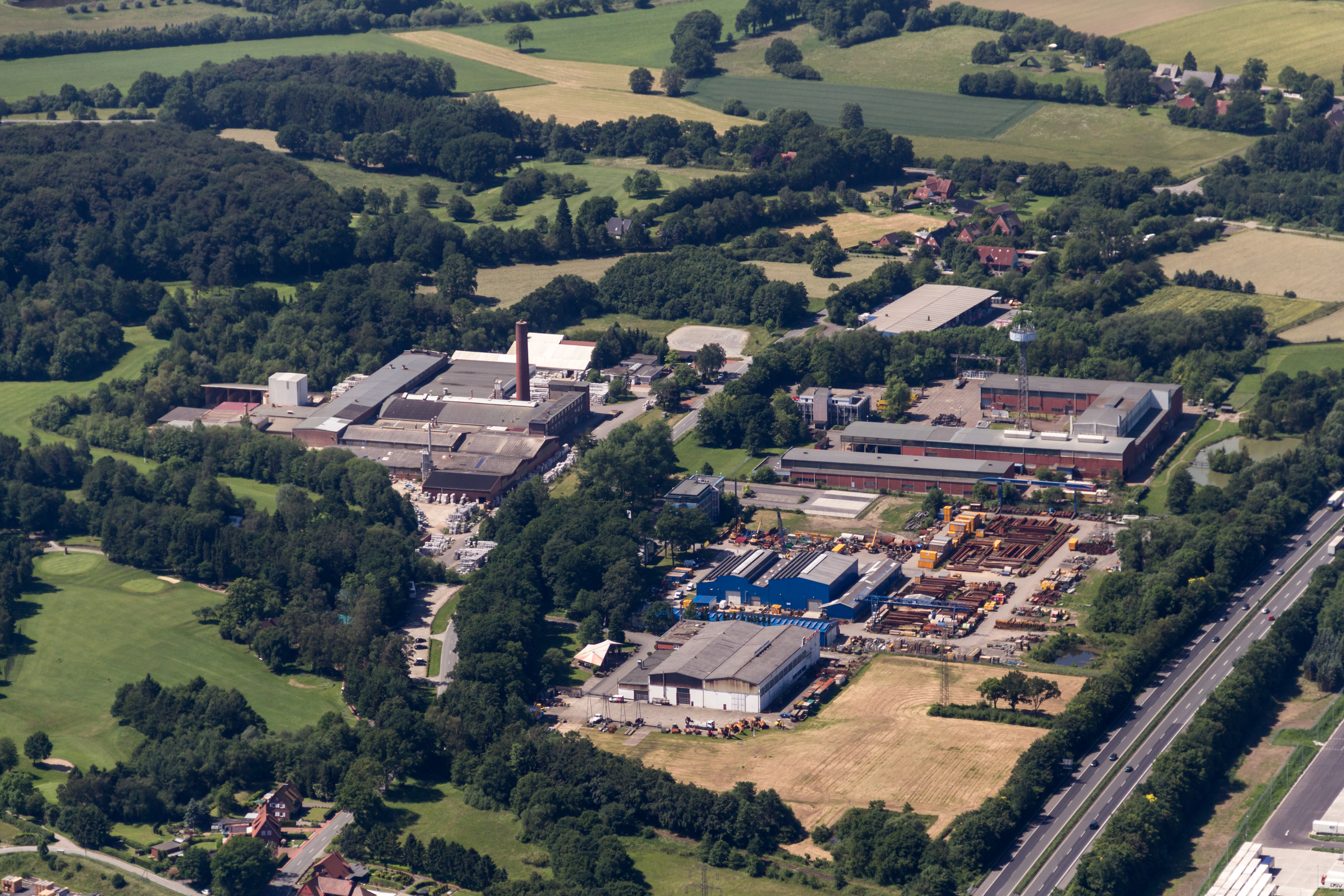 Industriestraße, Westerkappeln, North Rhine-Westphalia, Germany